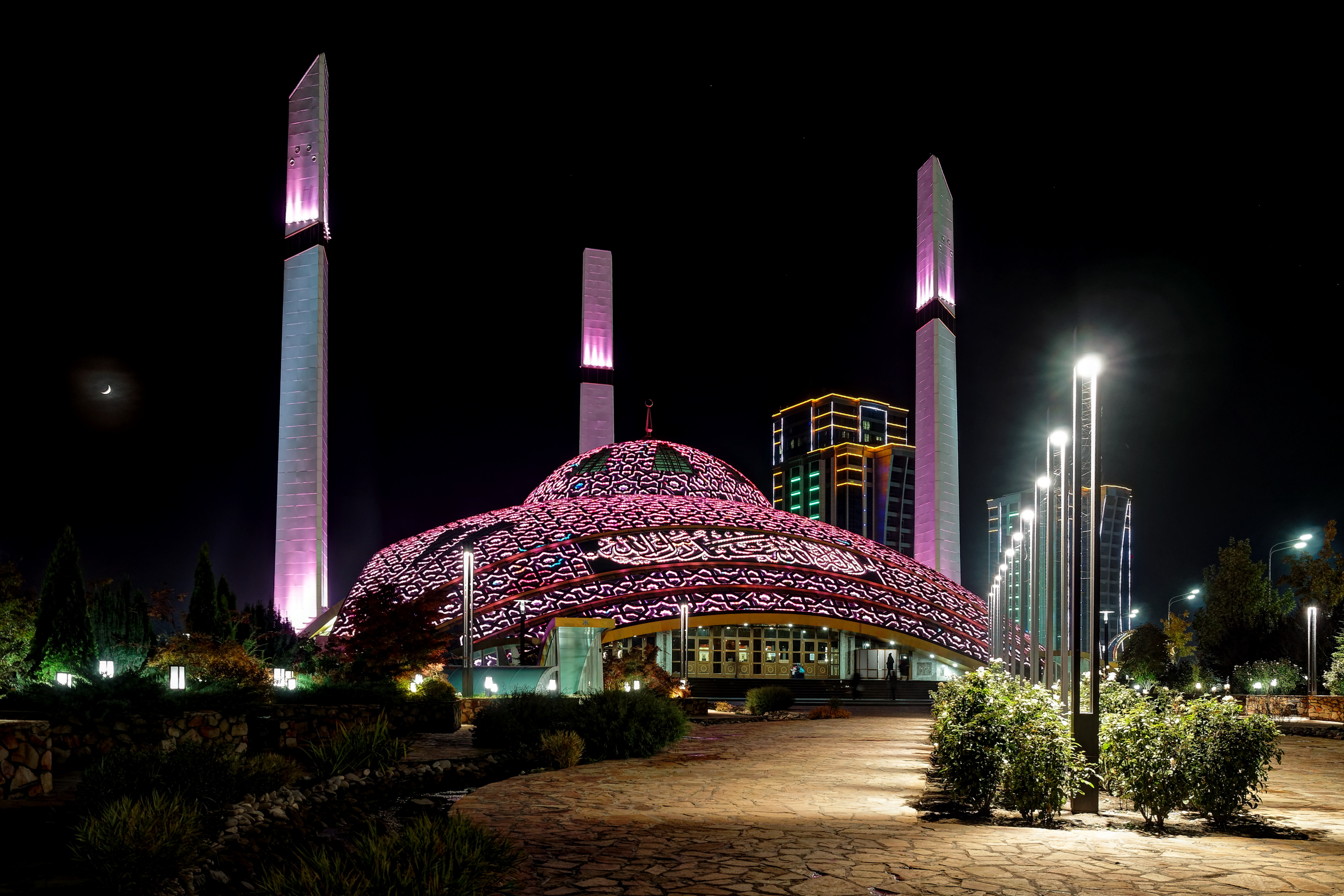 Argun. Aymani Kadirova Mosque